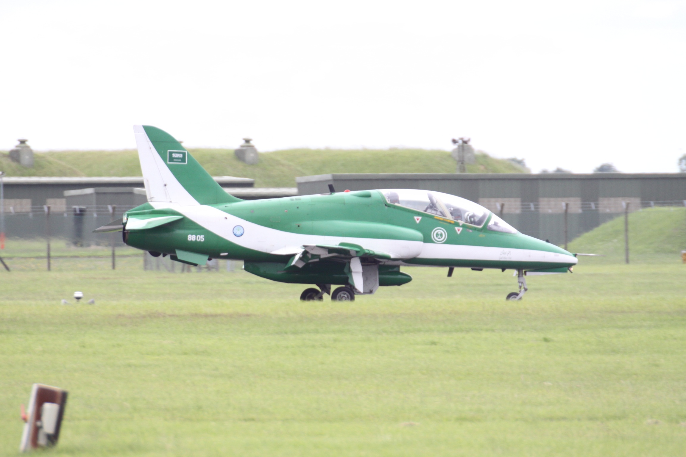 At RAF Waddington